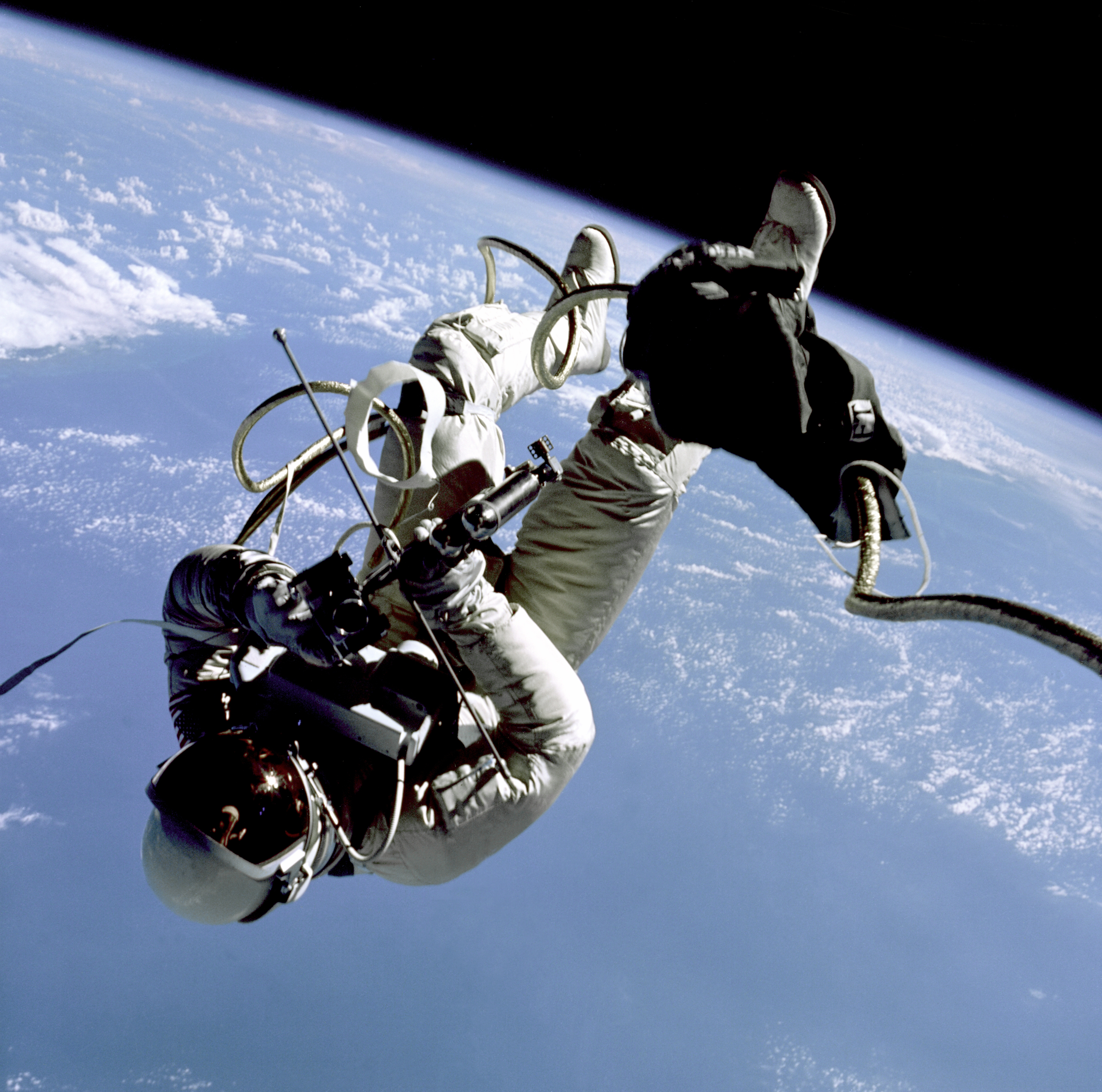 Edward H. White II, pilot of the Gemini 4 spacecraft, floats in the zero gravity of space with an earth limb backdrop. The extravehicular activity was performed during the third revolution of the Gemini 4 spacecraft and represents the first time an American has stepped outside the confines of his spacecraft. White is attached to the spacecraft by a 25-ft. umbilical line and a 23-ft. tether line, both wrapped in gold tape to form one cord. In his right hand White carries a Hand-Held Self-Maneuvering Unit (HHSMU). The visor of his helmet is gold plated to protect him from the unfiltered rays of the sun.